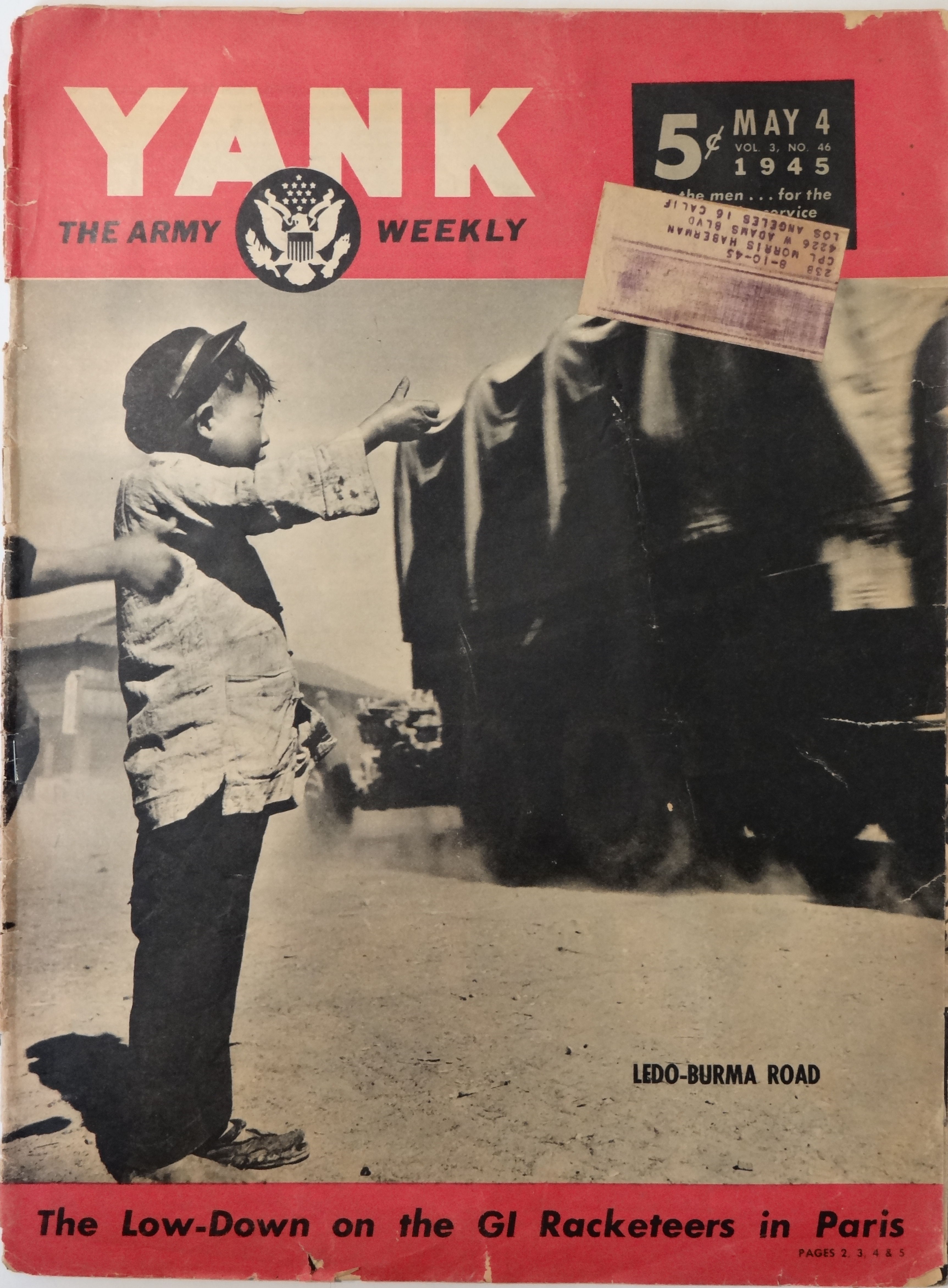 Caption: "Along the Ledo-Burma Road, a little boy gives the famous Chinese good-luck greeting to a convoy truck towing a 75-mm pack howitzer." Photograph by Sgt. Dave Richardson.